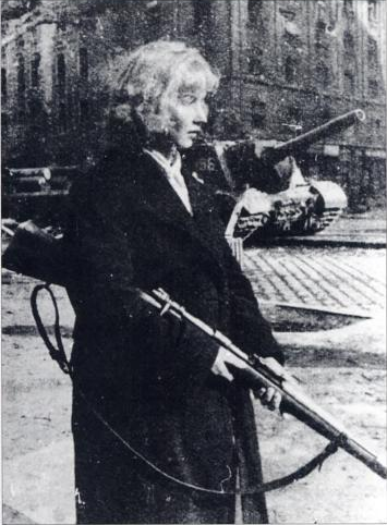 A women holding a old bolt action M91/30 rifle and the massive ISU-152s knocked out by her group, this blonde girl appears in several photos of the Corvin Passage fighters.She wears a dark civilian overcoat possibly with red-white-green ribbon on the left lapel.